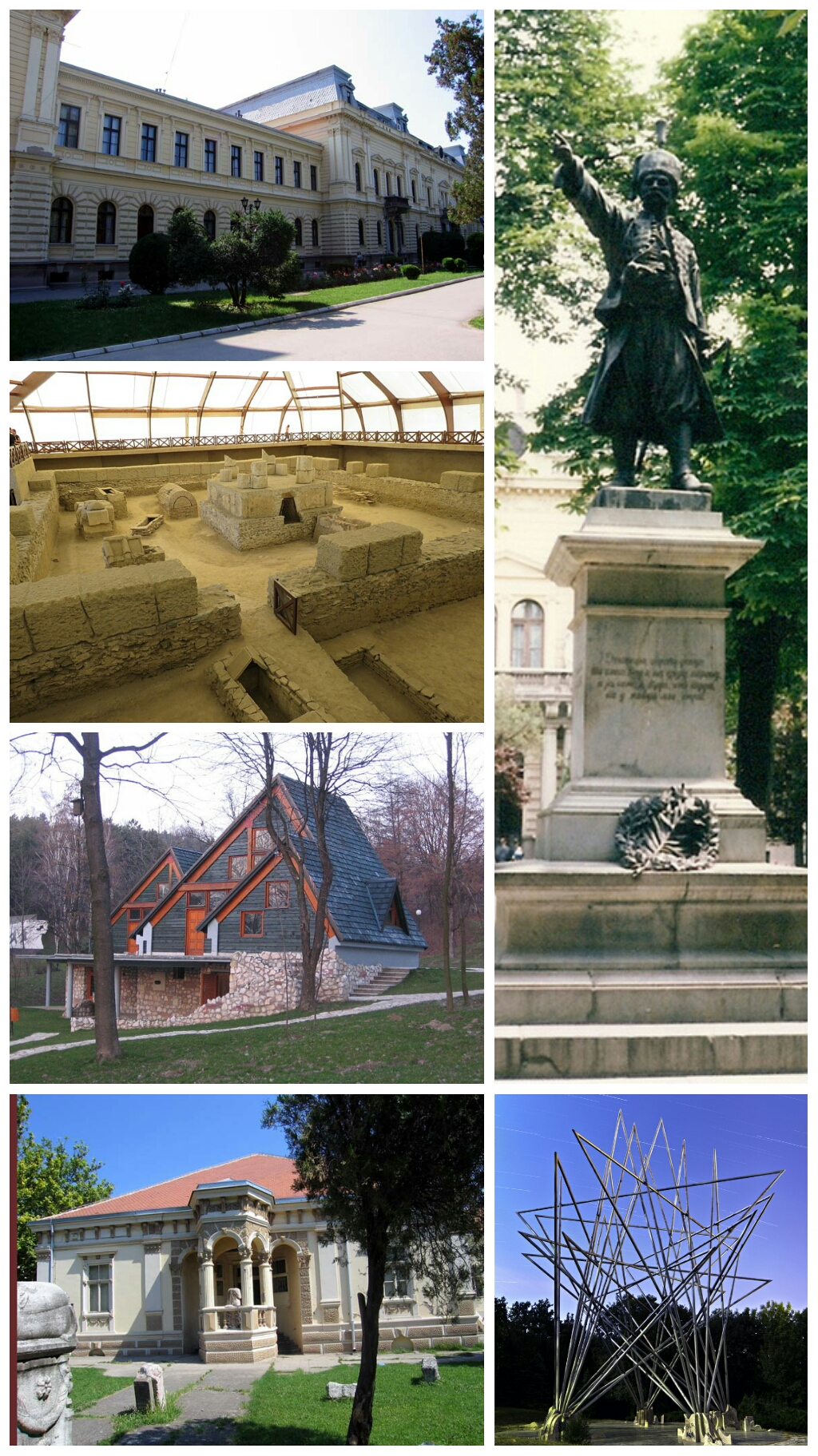 Photomontage of Požarevac (Left- Požarevac City hall, Mausoleum and cemetery in Viminacium, Eco Home, Regional History Museum and right- Miloš Obrenović statue, The Monument Star" in the Čačalica memorial park)